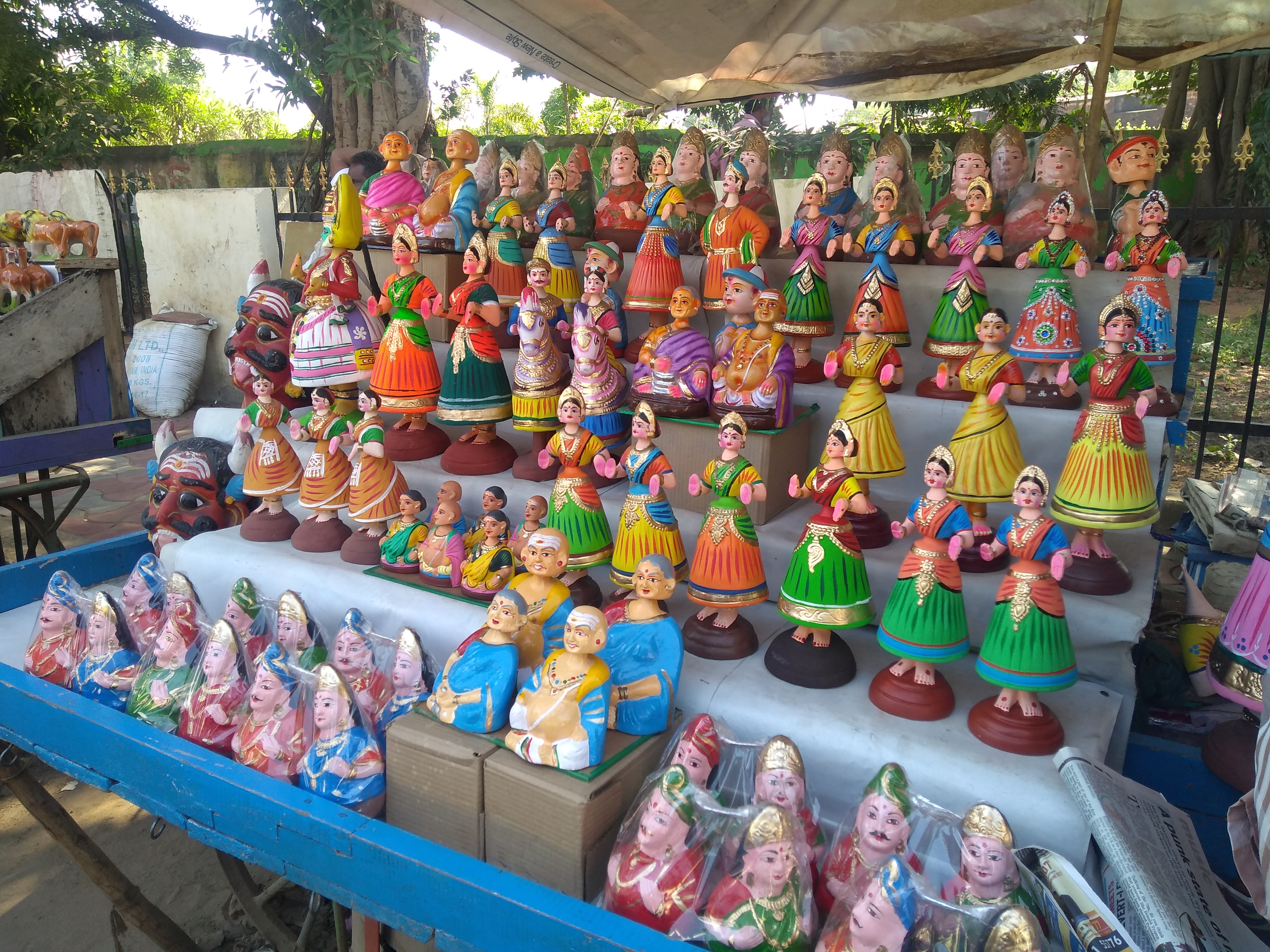 Thanjavur "thalaiyatyi bommai" stall